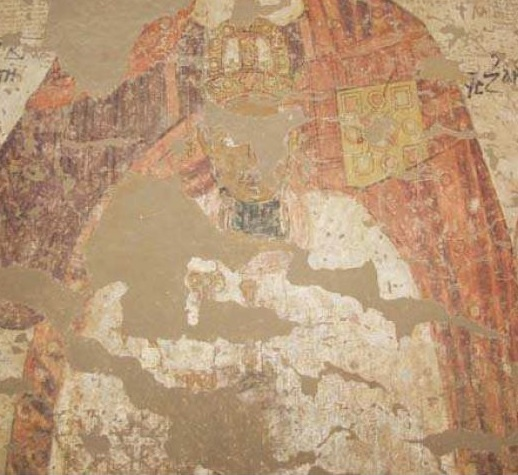 NOTE: THIS IS NOT GEORGIOS II, BUT GEORGIOS III (MESSED UP THE FILE NAME). Mural from Sonqi Tino showing king Georgios III / George III of Makuria. He ruled during the late 10th century. He wears a Byzantine crown, his head is covered by a red veil.